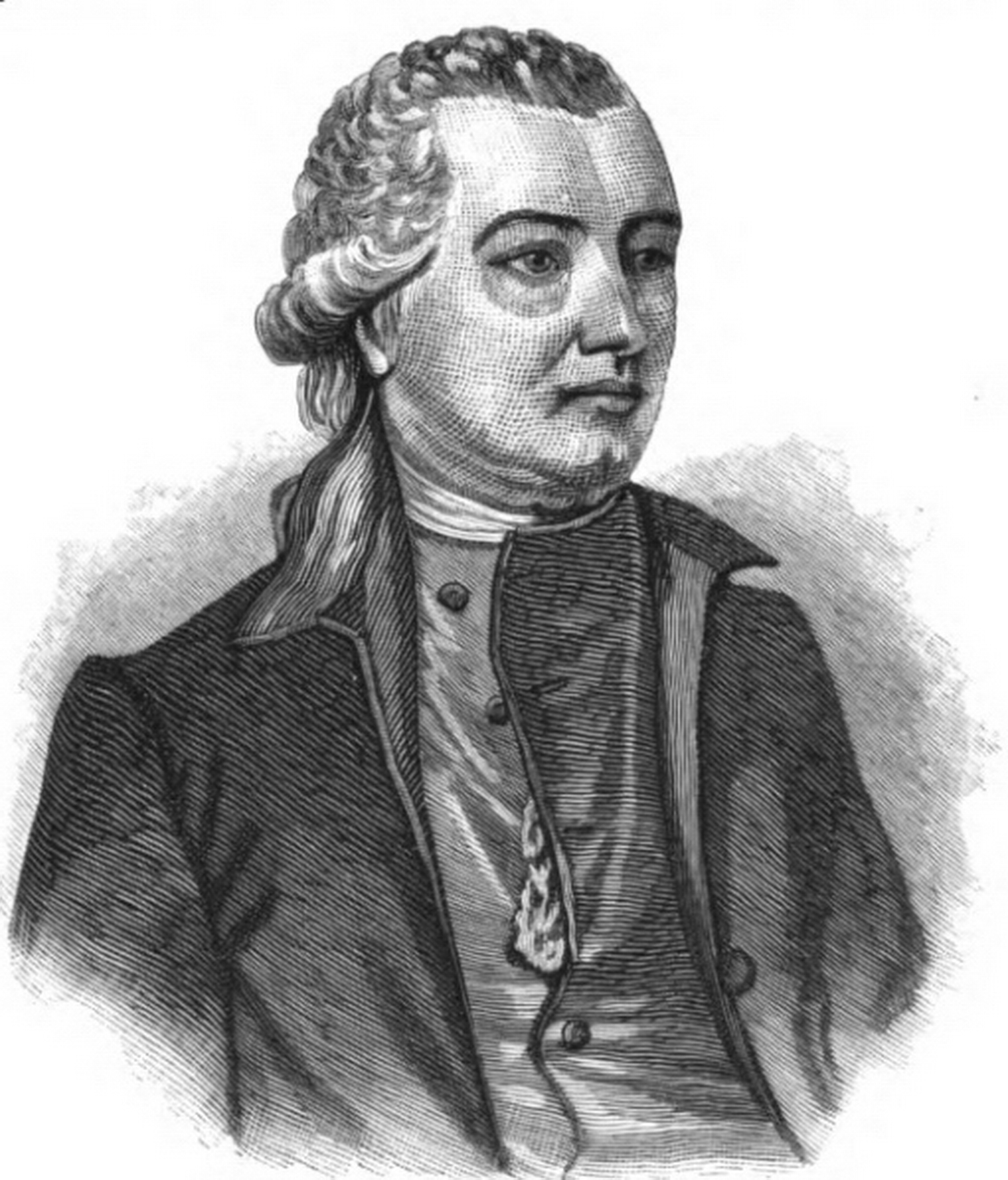 Wall Street in History (1883 book) The number shown is the book's page number and the text shown is the image caption. Click on the link to get to the full book